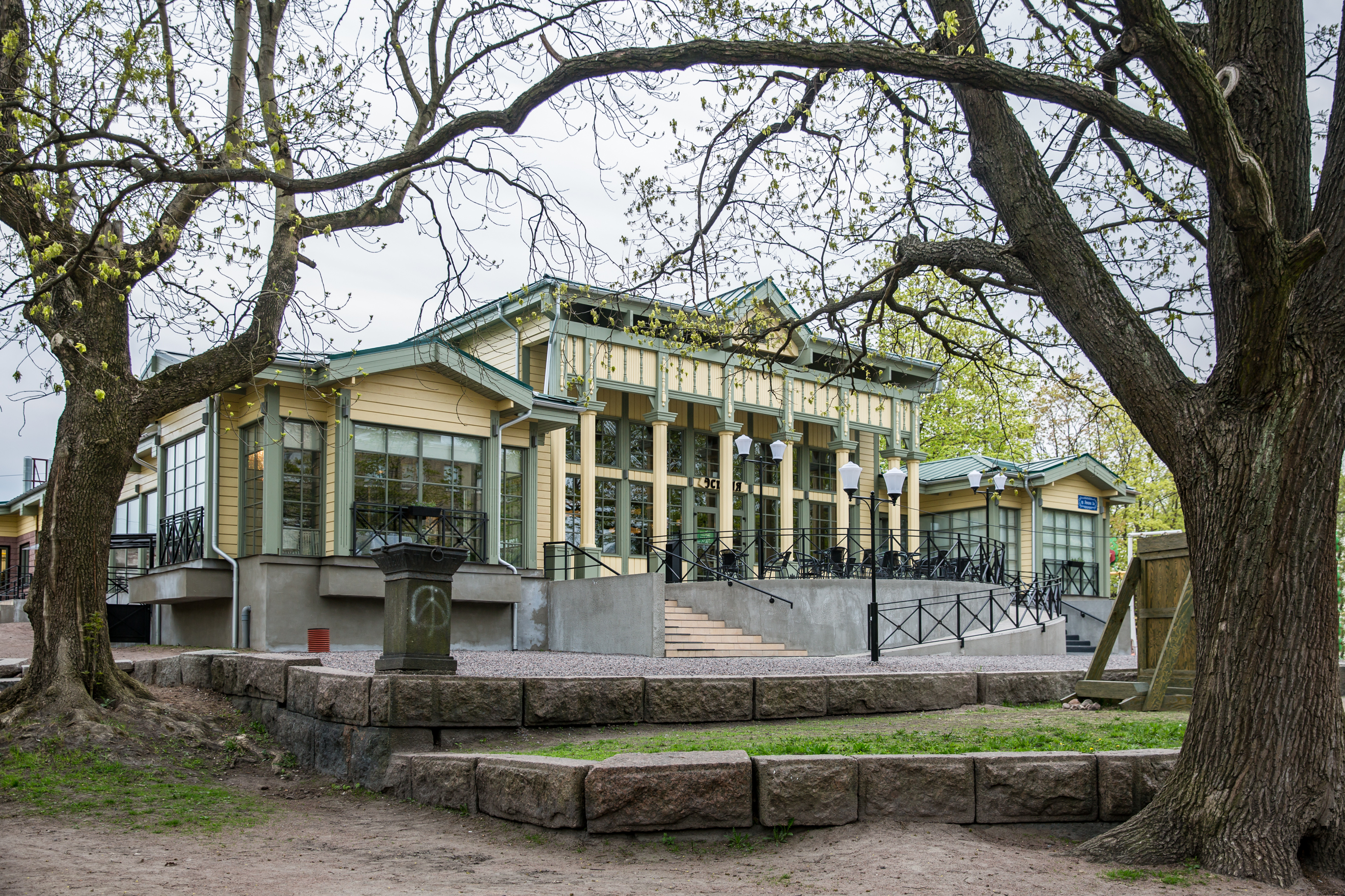 New Restaurant Espilä by architect Larisa Legashova, built in 2016 on the same site as the original Espilä from 1890. The new building has some resemblance to the original wooden building in its overall shape but not in structures or details. Source: A news item by Yle, 2016.